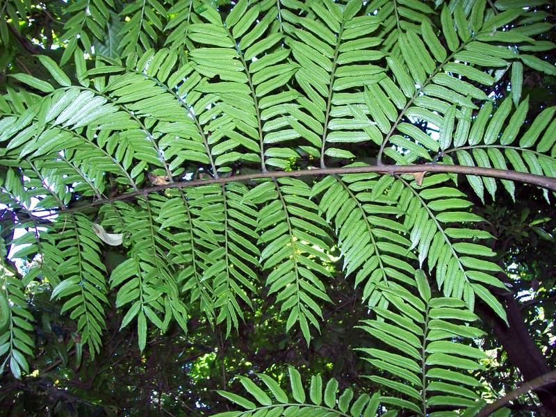 Marattia howeana at the Royal Botanic Gardens, Sydney